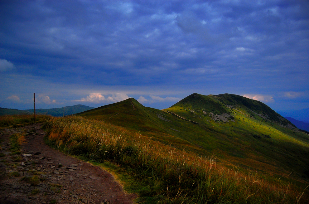 The view on Tarnica - the route from Ustrzyki Gorne